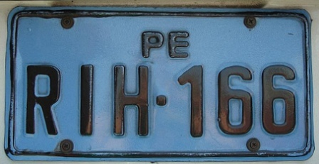 Peruvian Vehicle Registration Plate in 1994-2009 format